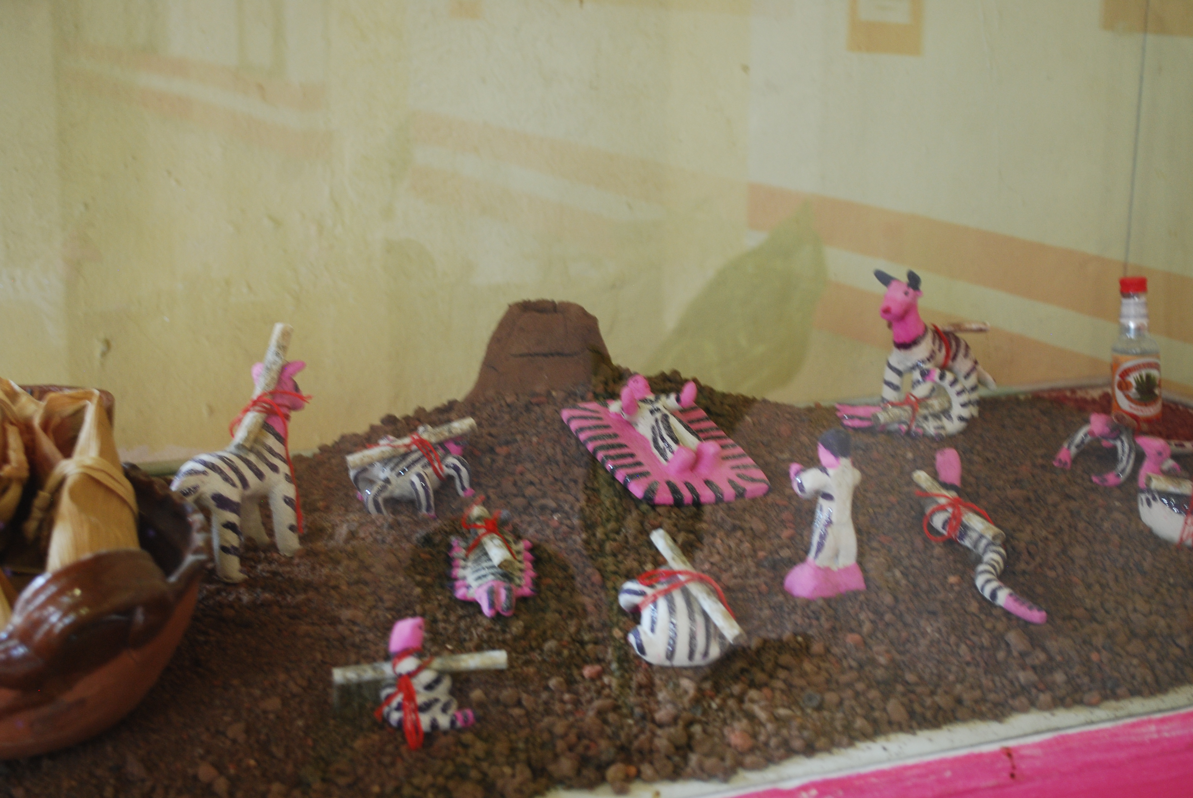 A Juego de Aire (lit. Air set) used for ritual healing. On display at the La Cereria Museum in Tlayacapan, Morelos, Mexico